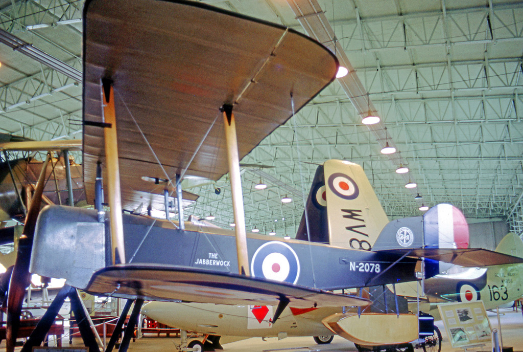 Sopwith Baby N2078 displayed at the Fleet Air Arm Museum at Yeovilton, Somerset